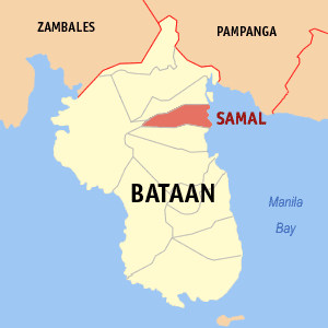 Map of Bataan showing the location of Samal